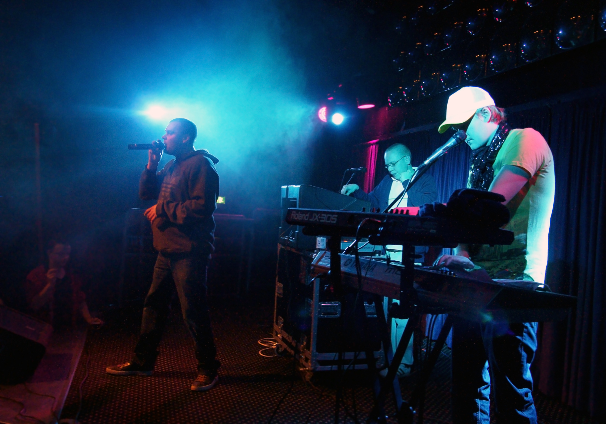 Lord Est performing at Bar Kino, Pori, Finland.